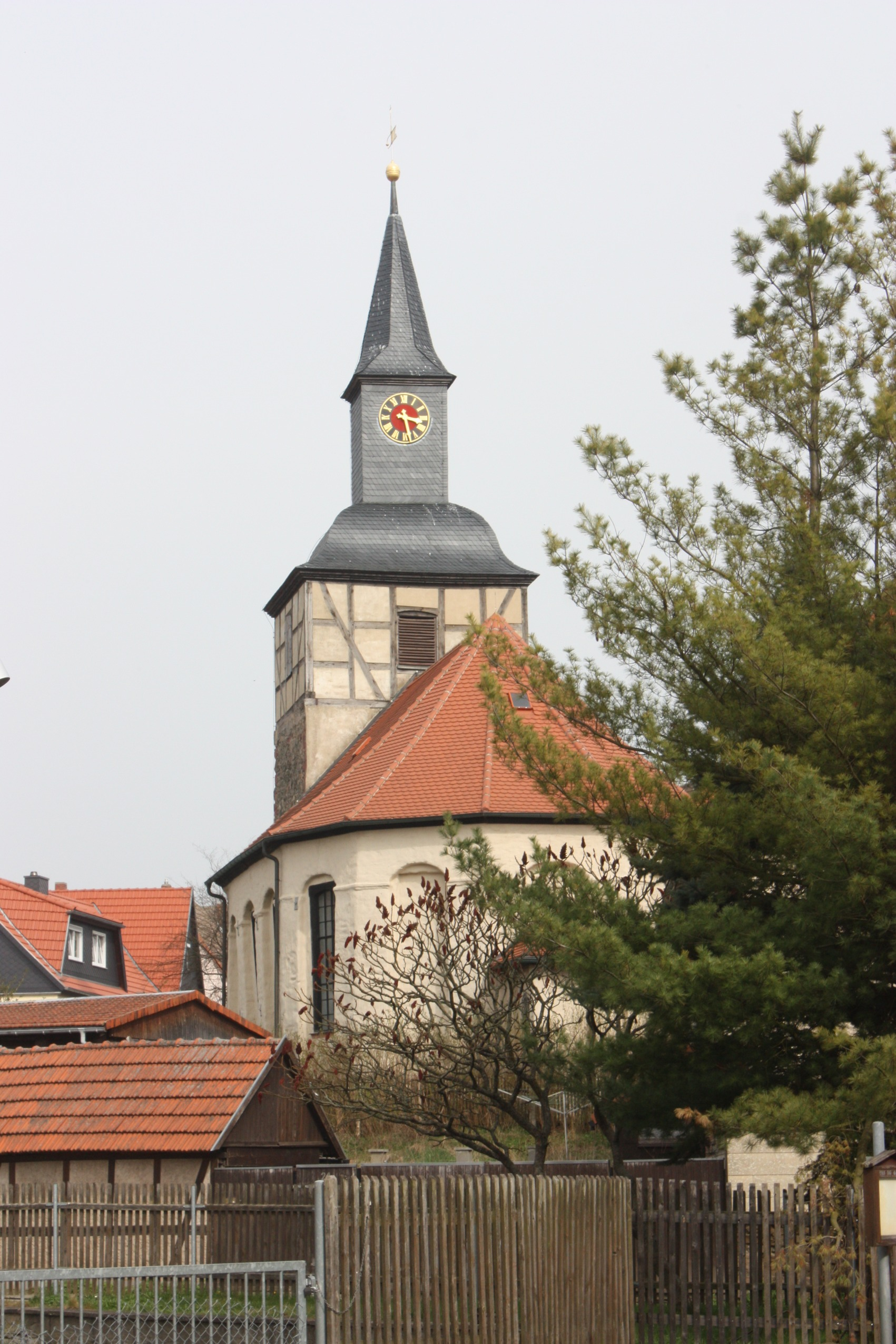 Braunschwende (Mansfeld), the village church